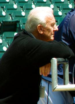 Picture of Al Kaline